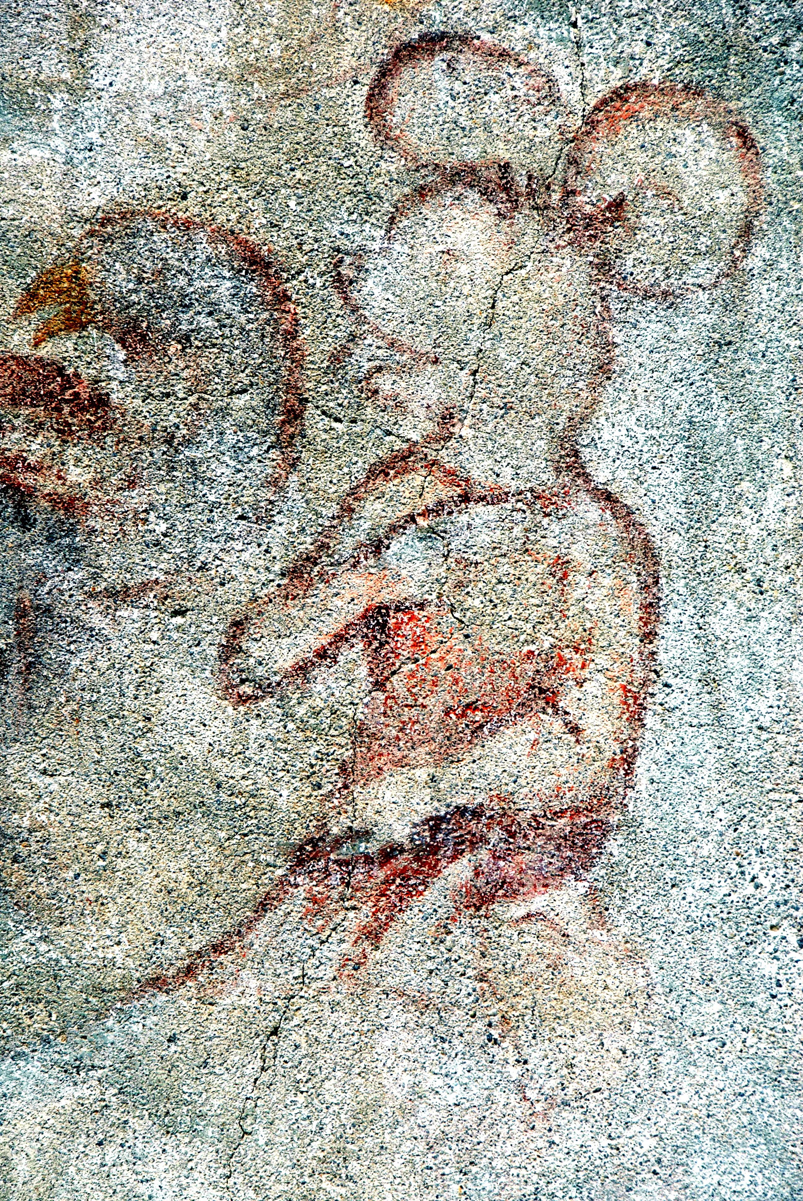 “Mickey Mouse” as part of the Chrotopherus-fresco on the outside wall of the parish church Maria Hilf Assumptio at Malta in the district Spittal on the Drau, Carinthia, Austria